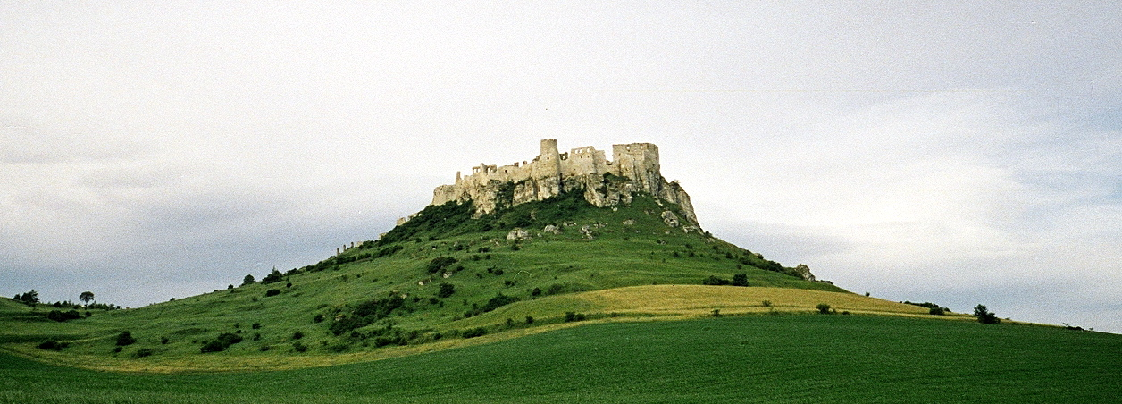 Spiš Castle from northeast